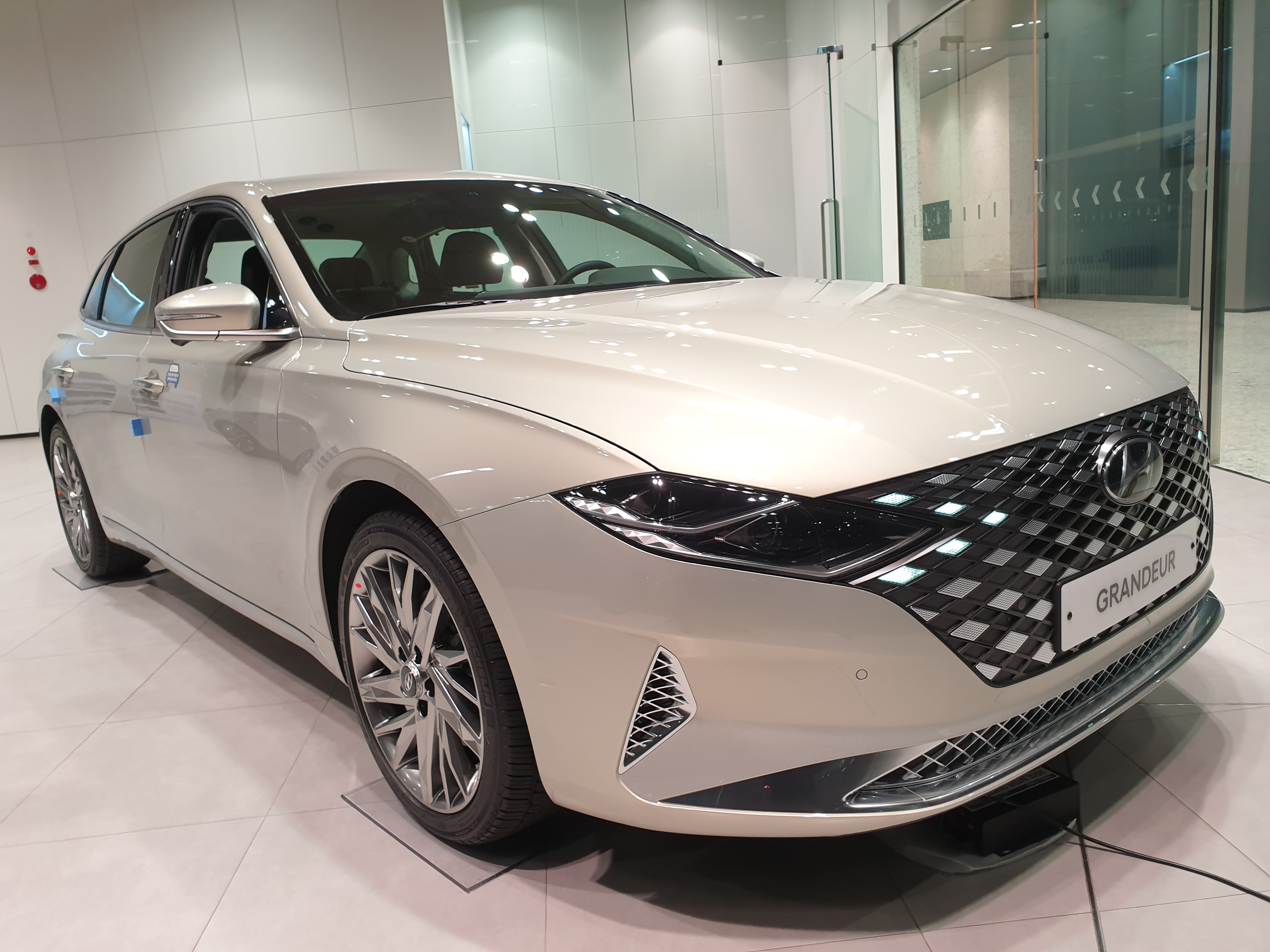 Hyundai Grandeur(Front-side)